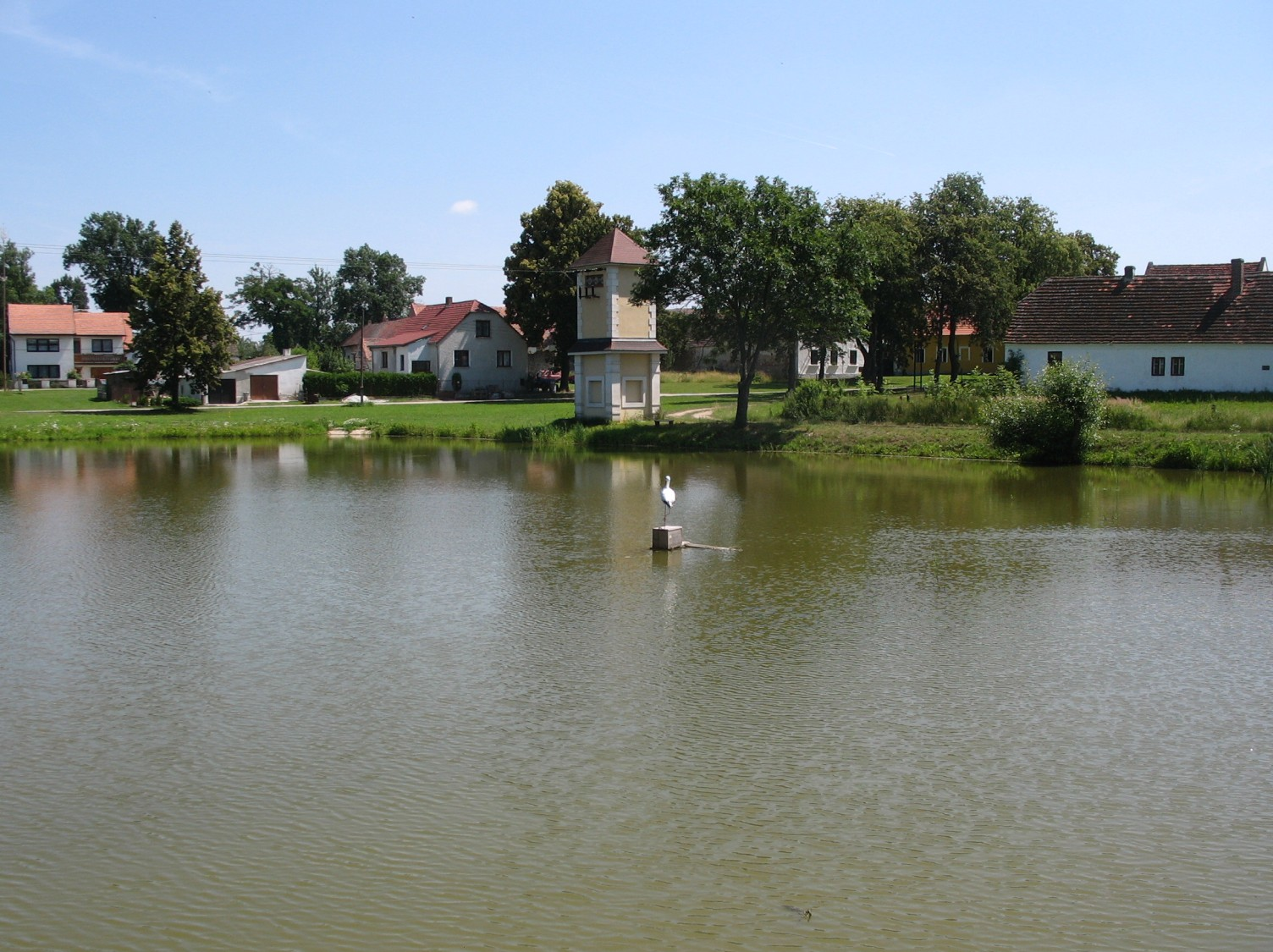 Pašice, the Czech Republic